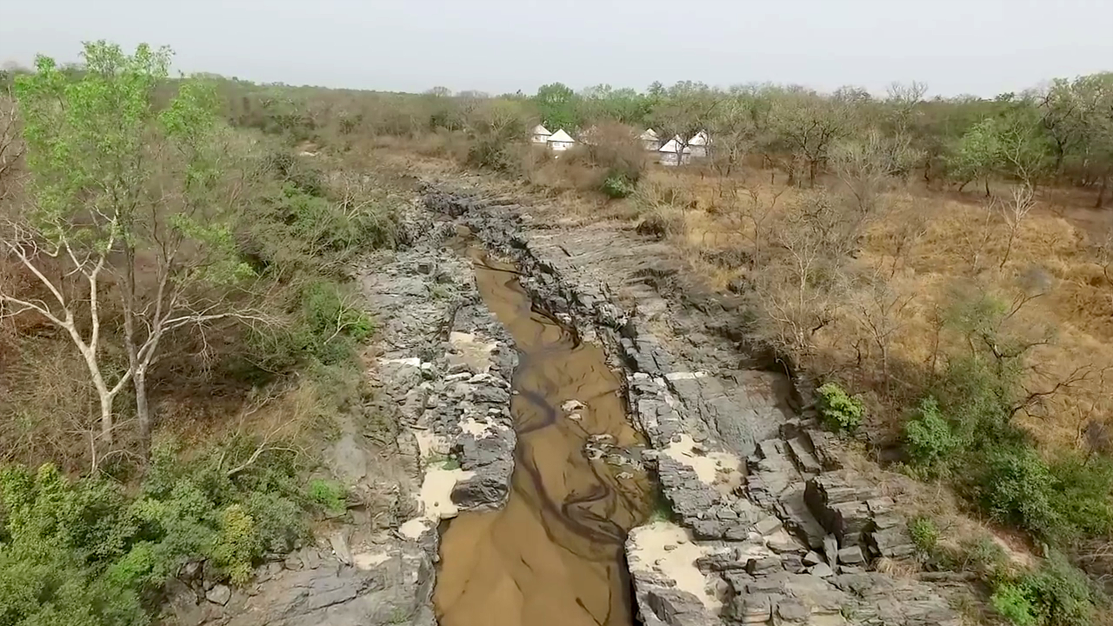 Bénoué National Park, North Region of Cameroon